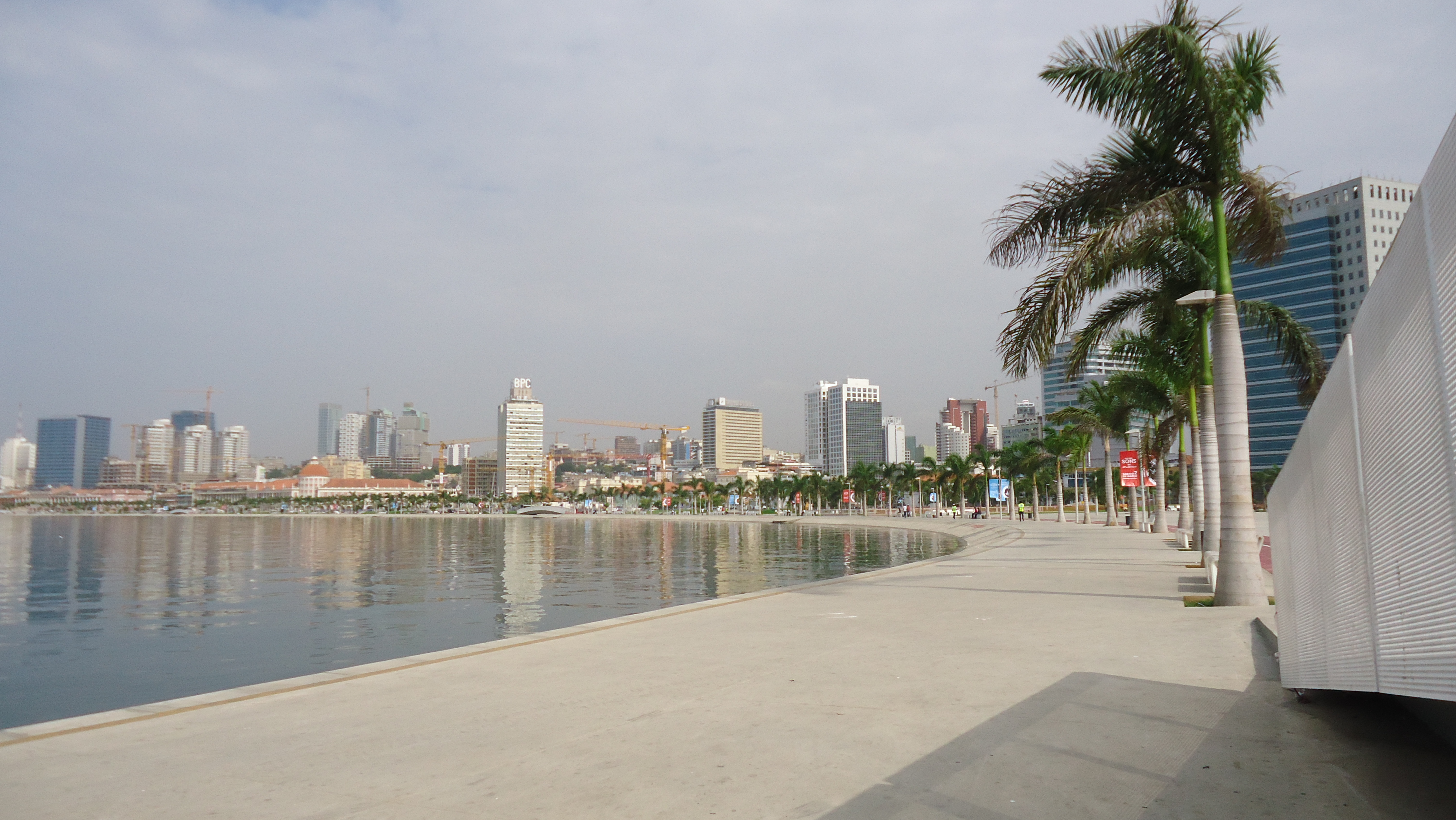 Marginal Avenida 4 de Febrero. Photo by Fabio Vanin, Luanda, 2016.